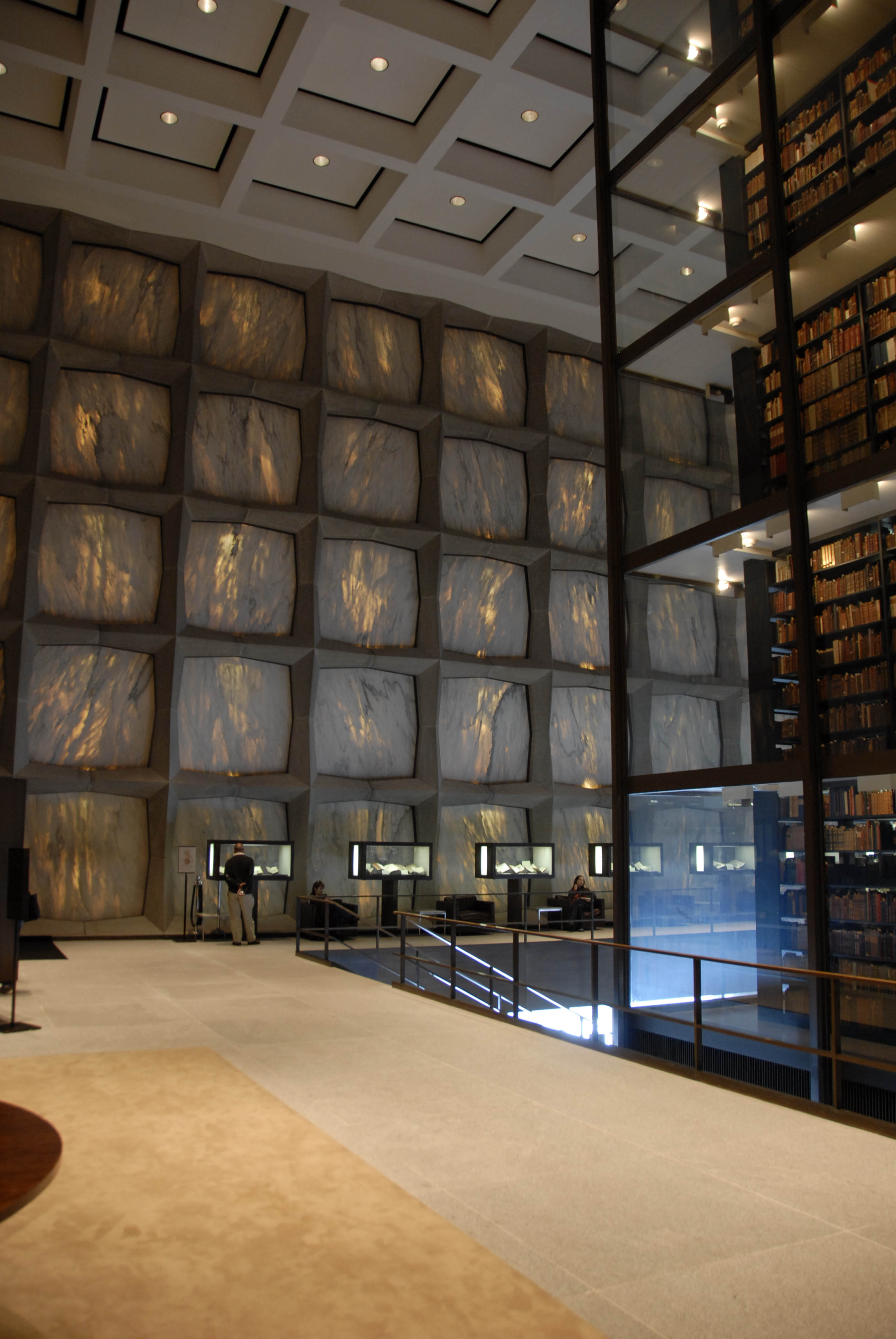 The interior of the "Marble Cube," Yale University's Beinecke Rare Books and Manuscripts Library.